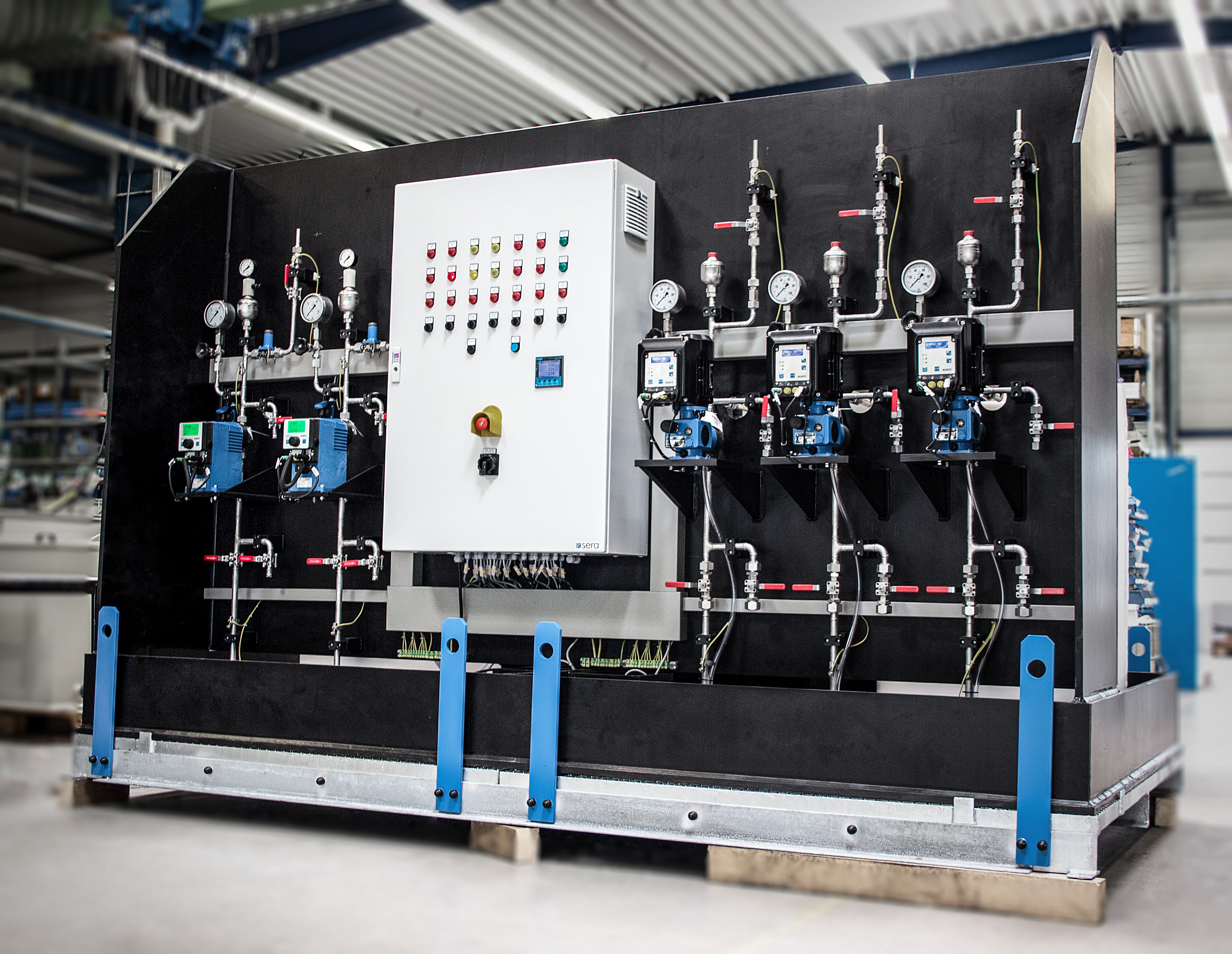 sera dosing system for caustic soda dosing in waste recycling industry.